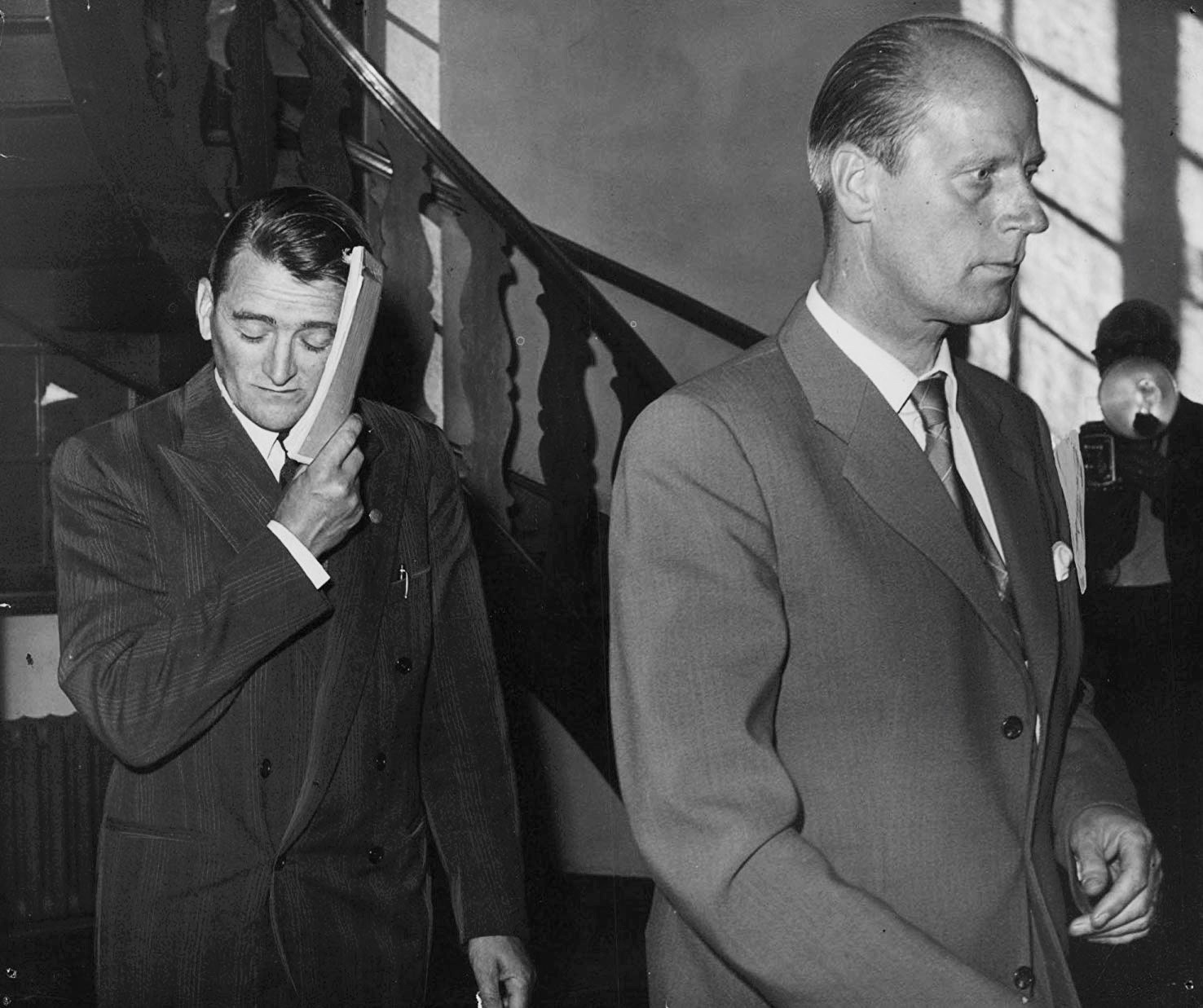 The spy Anatole Ericsson (left) tries to cover his face with a writing pad as he is brought into the courtroom by a policeman.